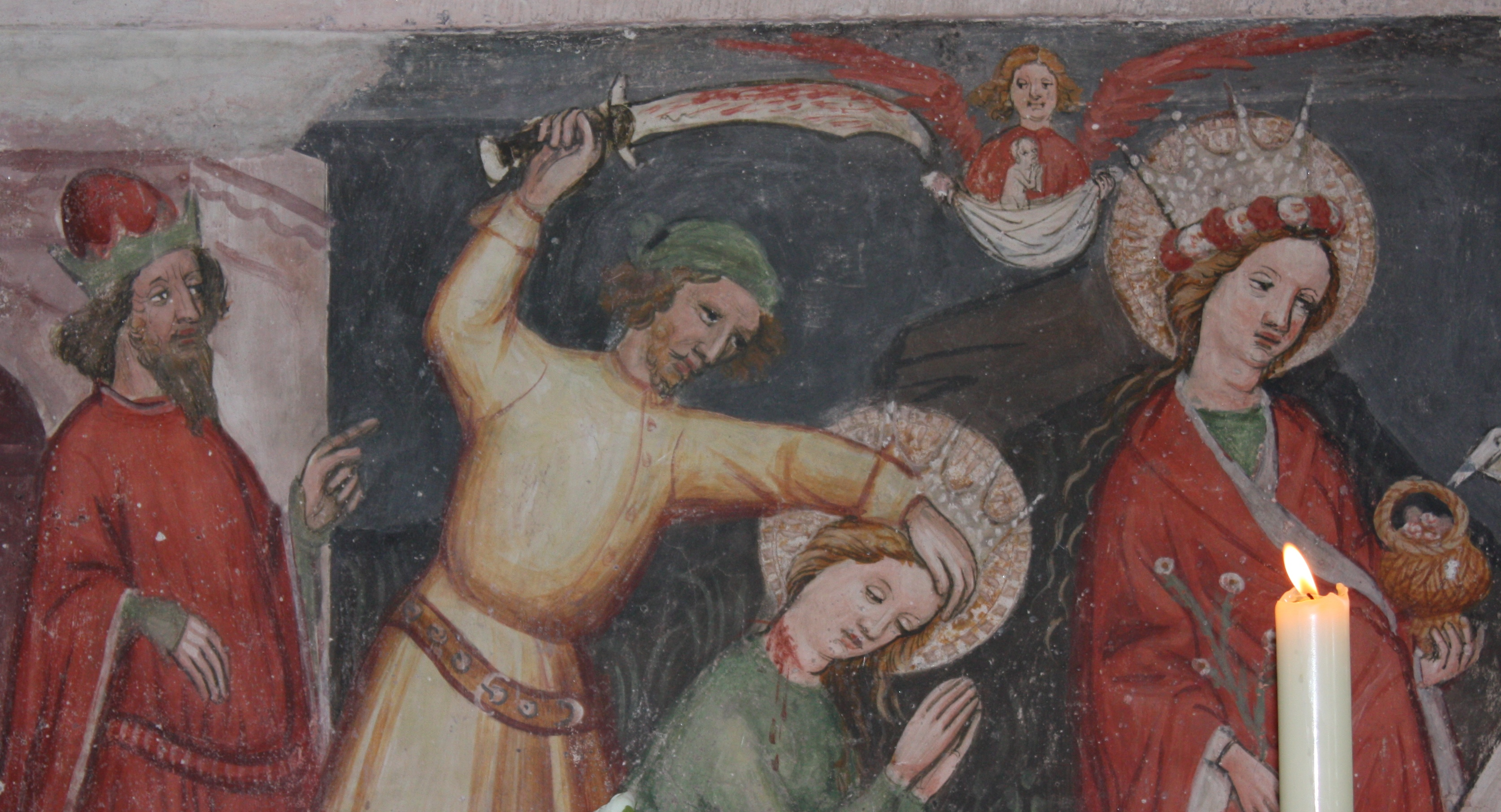 Parish church - Fresco - Catherine of Alexandria Locality: Liemberg Community: Liebenfels